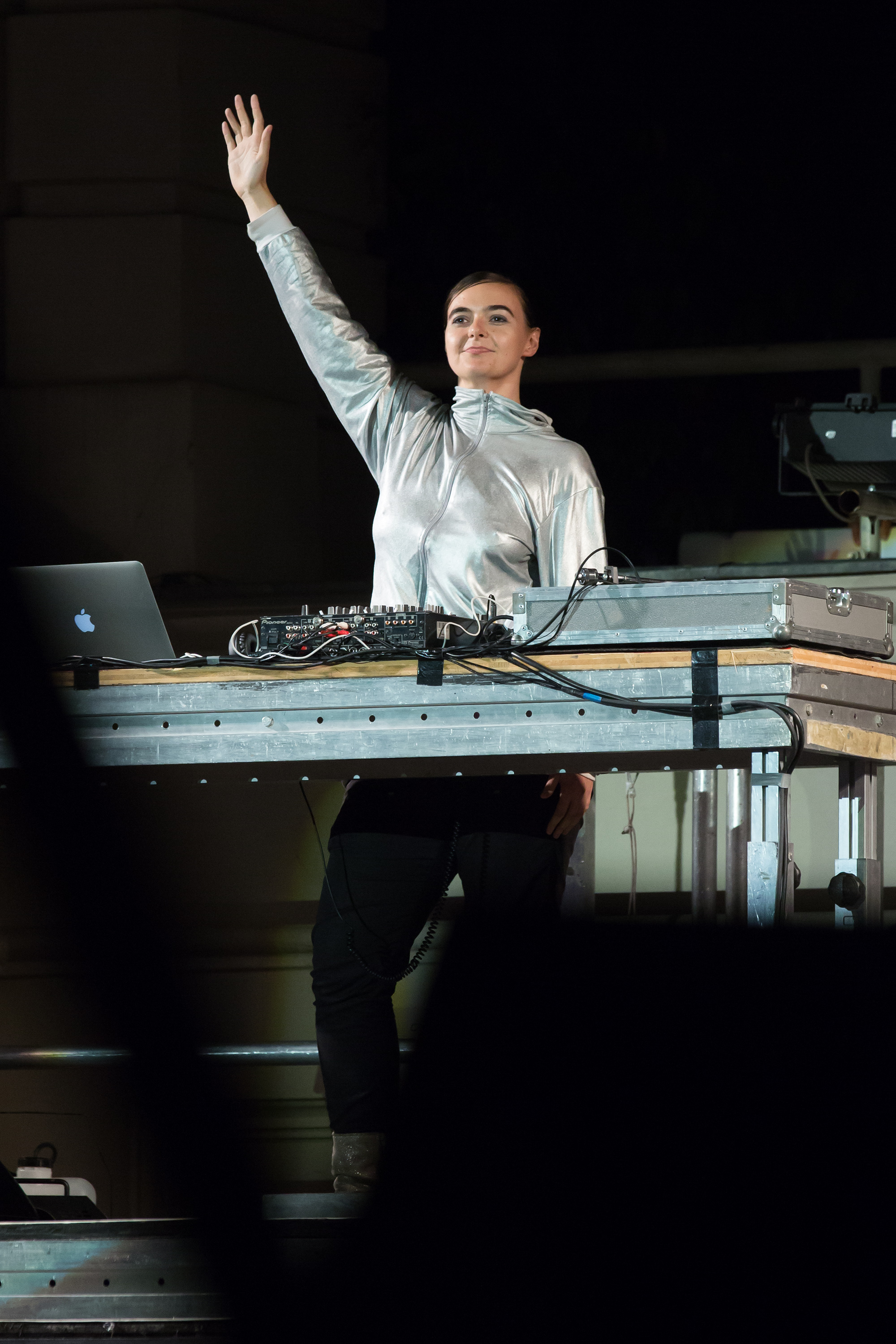 Doris Uhlich, choreographer and MC of the opening of ImPulsTanz Vienna International Dance Festival 2015 at Museumsquartier in Vienna, Austria.